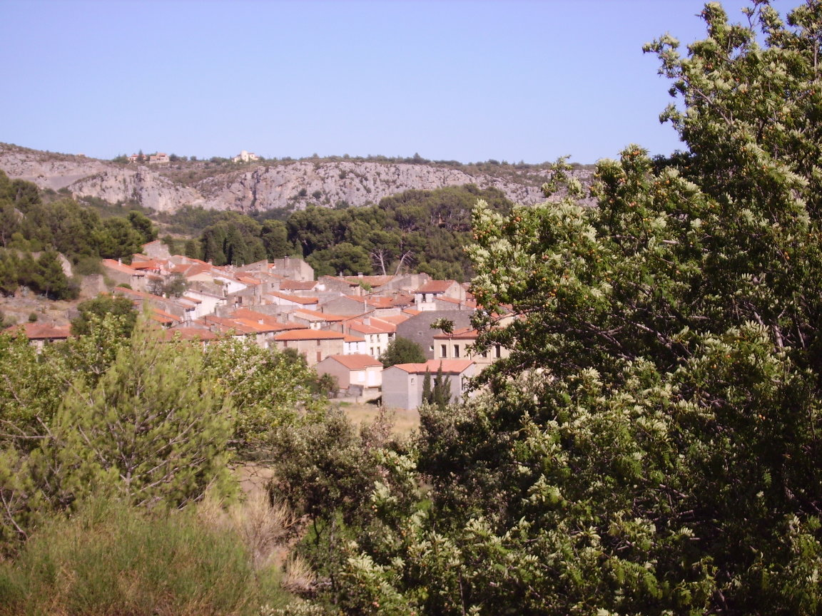 Vingrau (France, near to Perpignan).